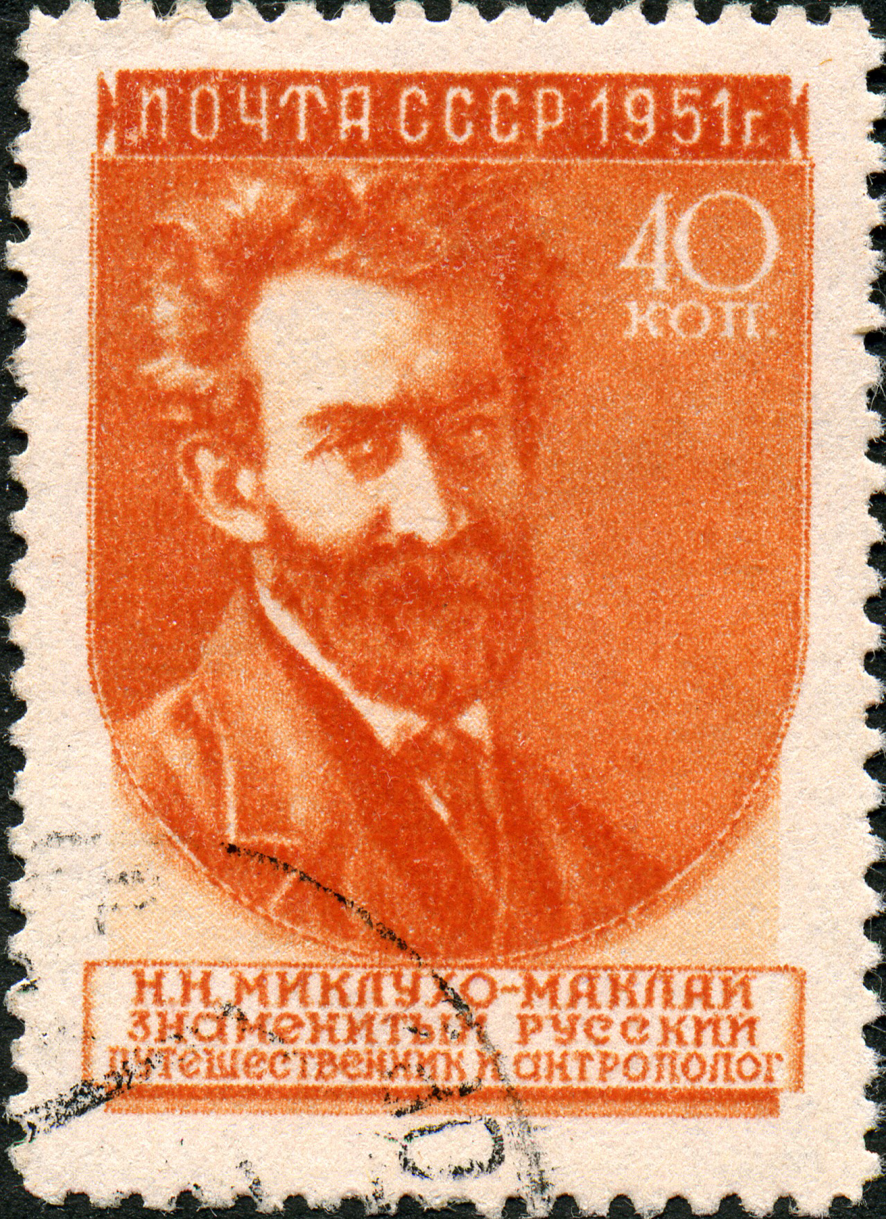 1951 USSR stamp of Nicholas Miklouho-Maclay, Ukrainian-Russian anthropologist and explorer